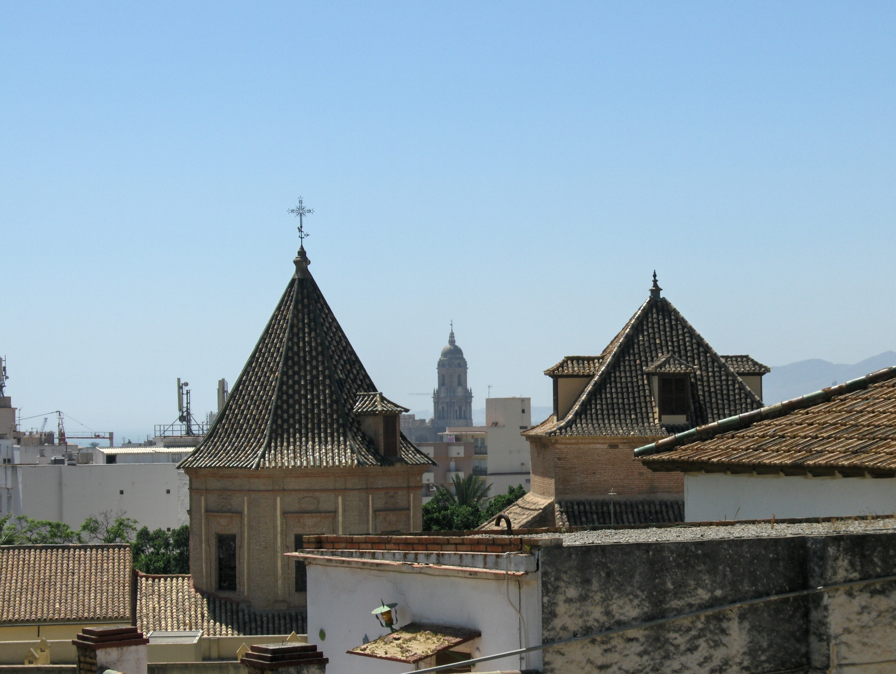 Santuario de la Victoria, Málaga.